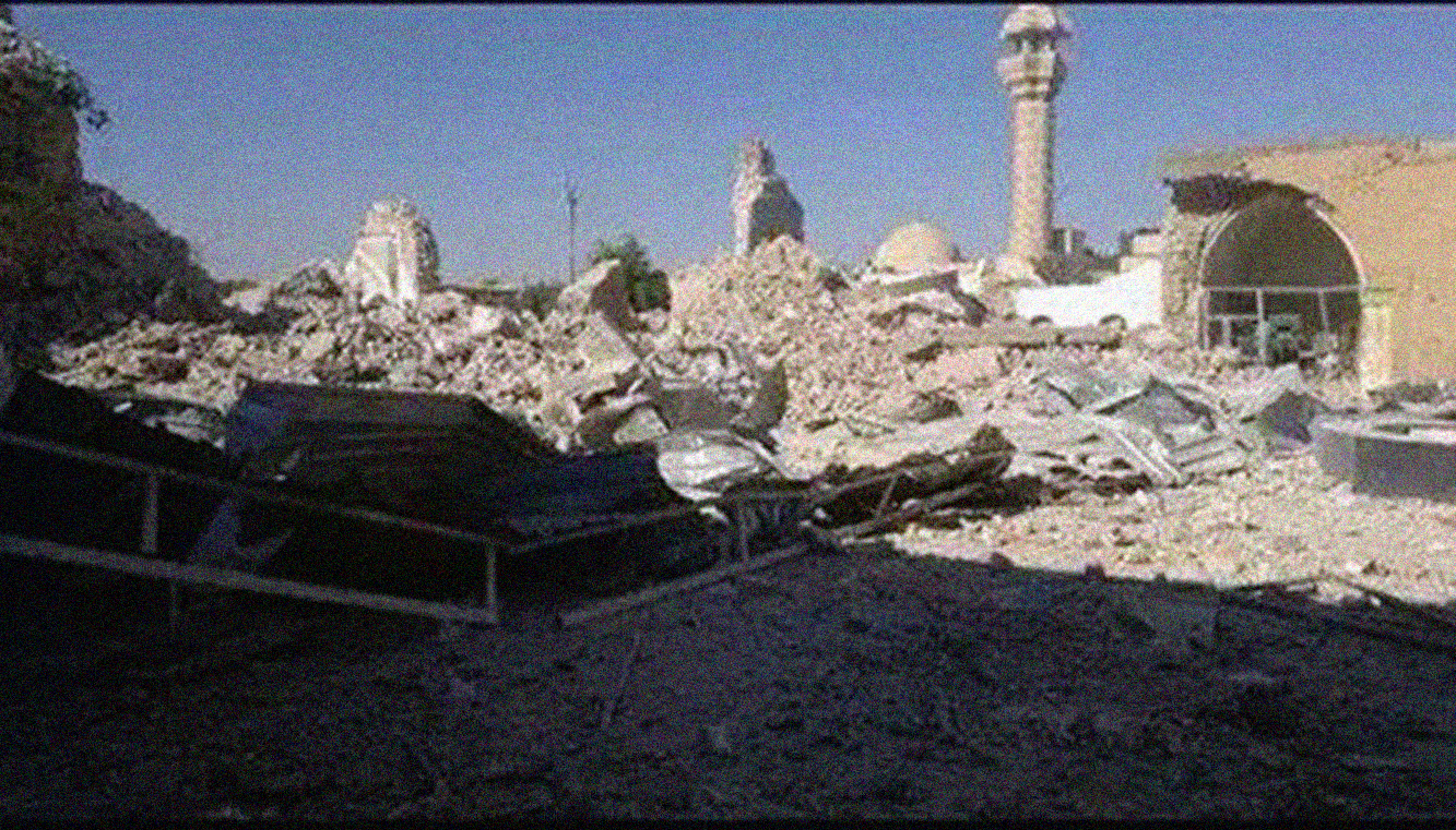 tikrit